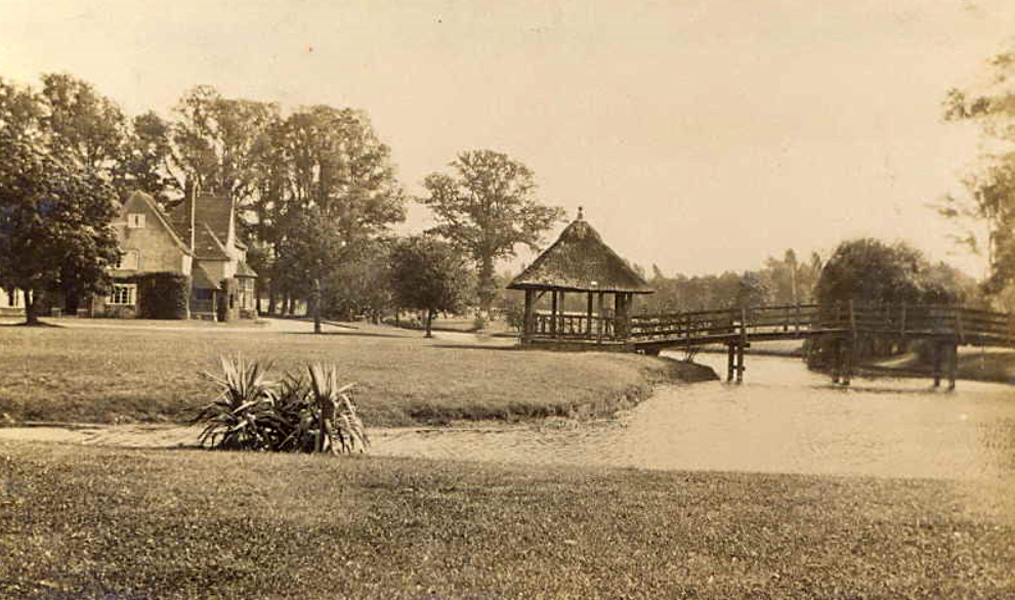 Prested Hall, Feering, Essex 1925